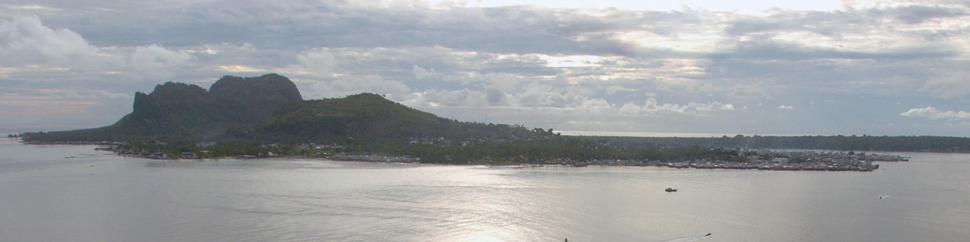 Skyline view of Bongao, Tawi Tawi, Philippines (June 14, 2006).